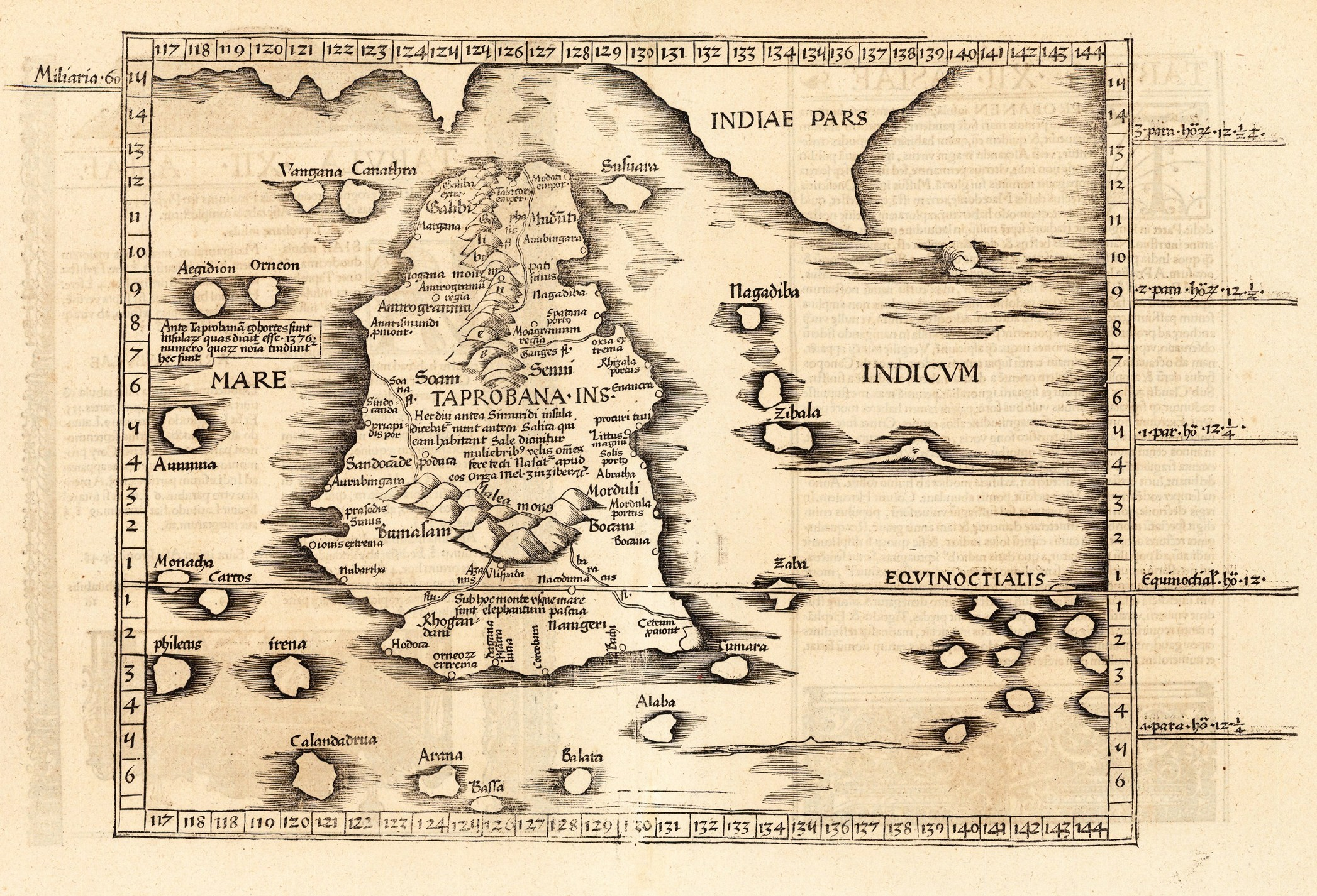 Ptolemy's 12th Asian Map (Tabula XII Asiae) by Laurent Fries from Michel Servet's 1535 reprint of his 1522 maps for Ptolemy's Geography (Cosmographia), depicting Taprobane (Taprobana Insula), a greatly swollen form of the island of Sri Lanka.